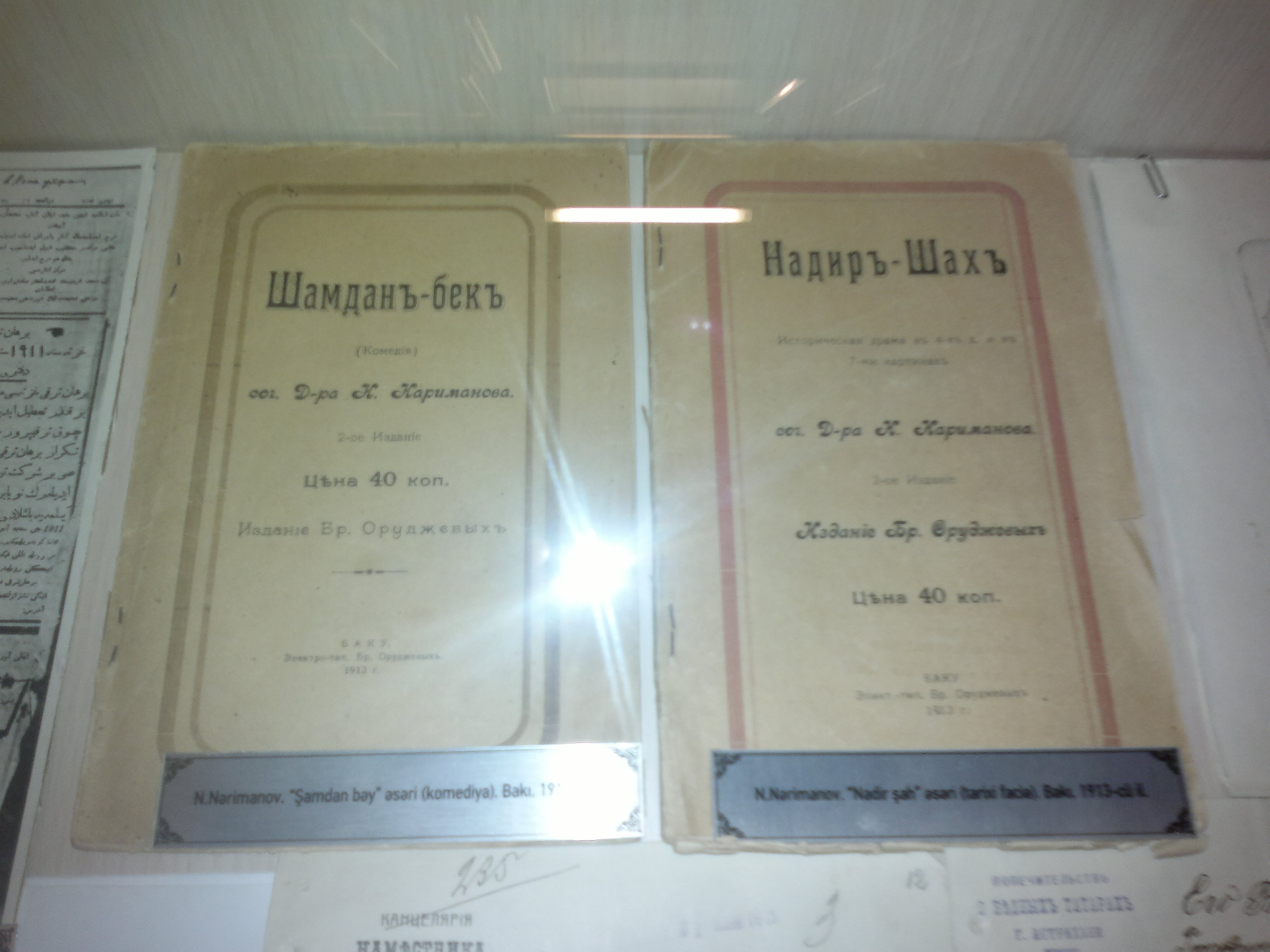 Shamdan-bek and Nadir-shah (1913)